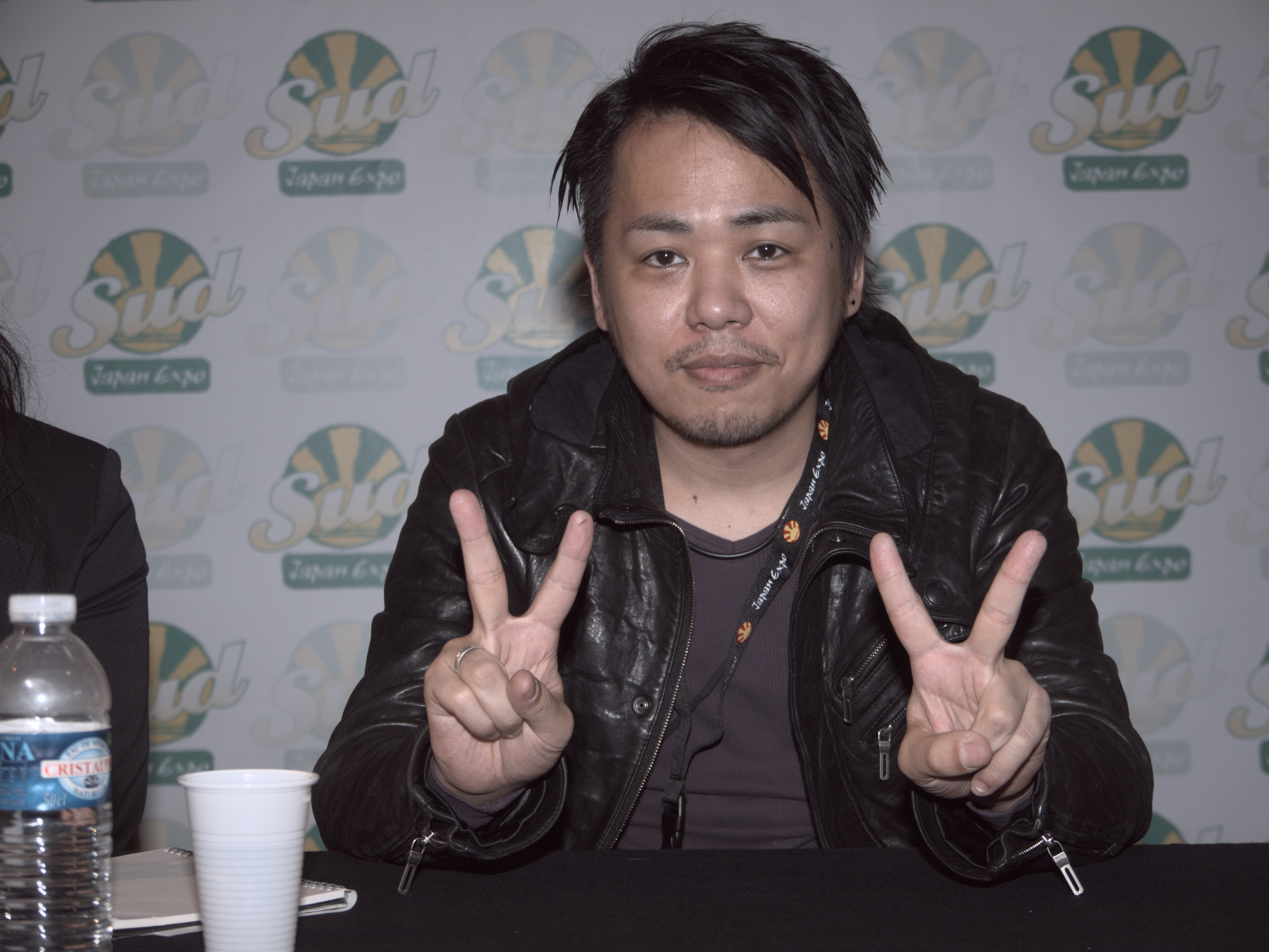 Japan Expo Festival, 3rd edition, 2011